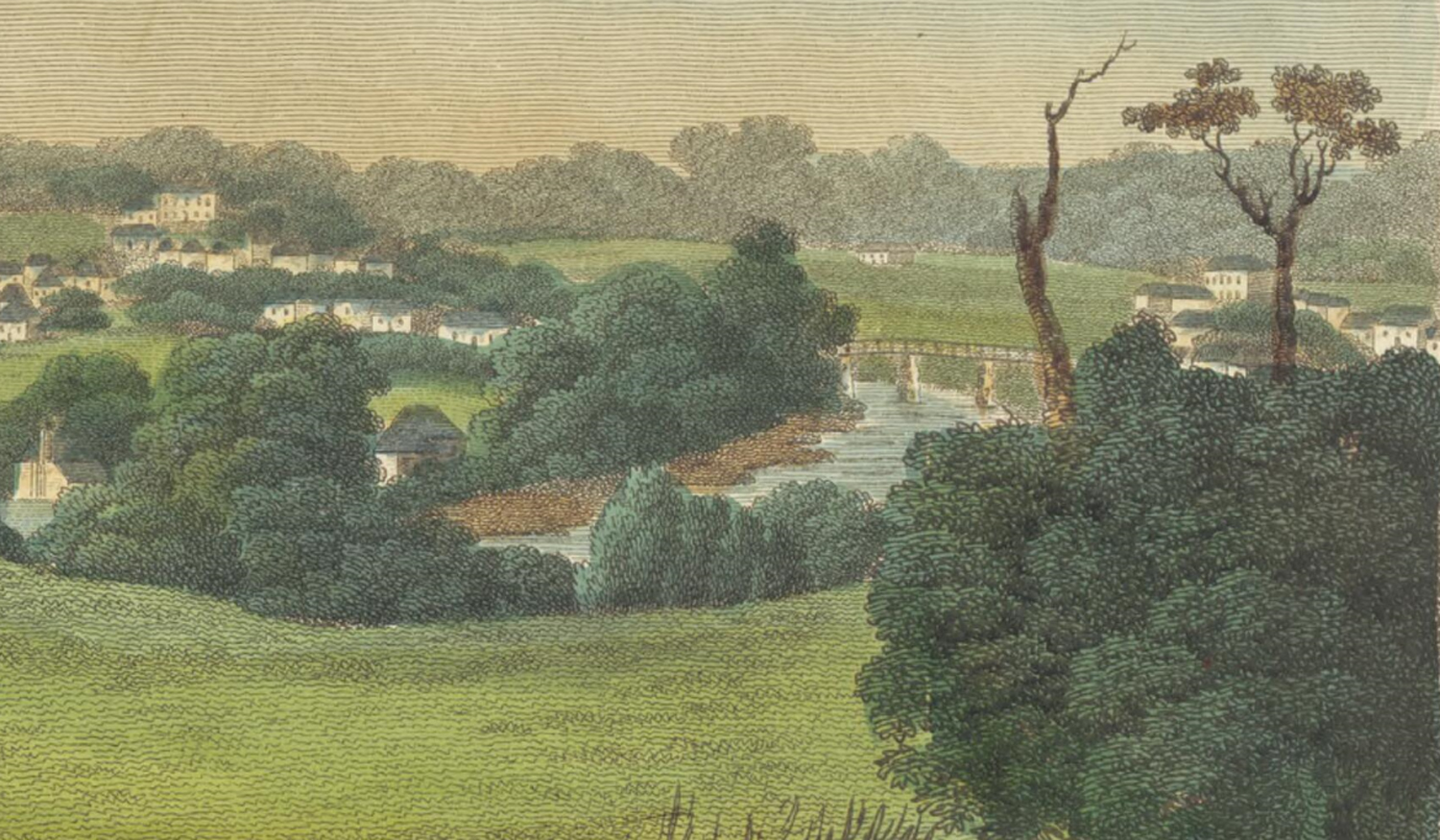 Parramatta, New South Wales 1811